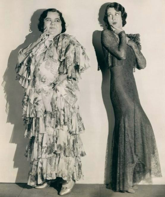 Mathilde Comont (left) and Frances Dee in the film Along Came Youth (1930) - publicity still (cropped)